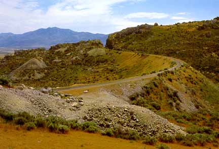 The Big Fill in Golden Spike Historical Site